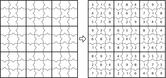 New version of sudoku (summer 2006), known as Greater-Than or Comparison Sudoku